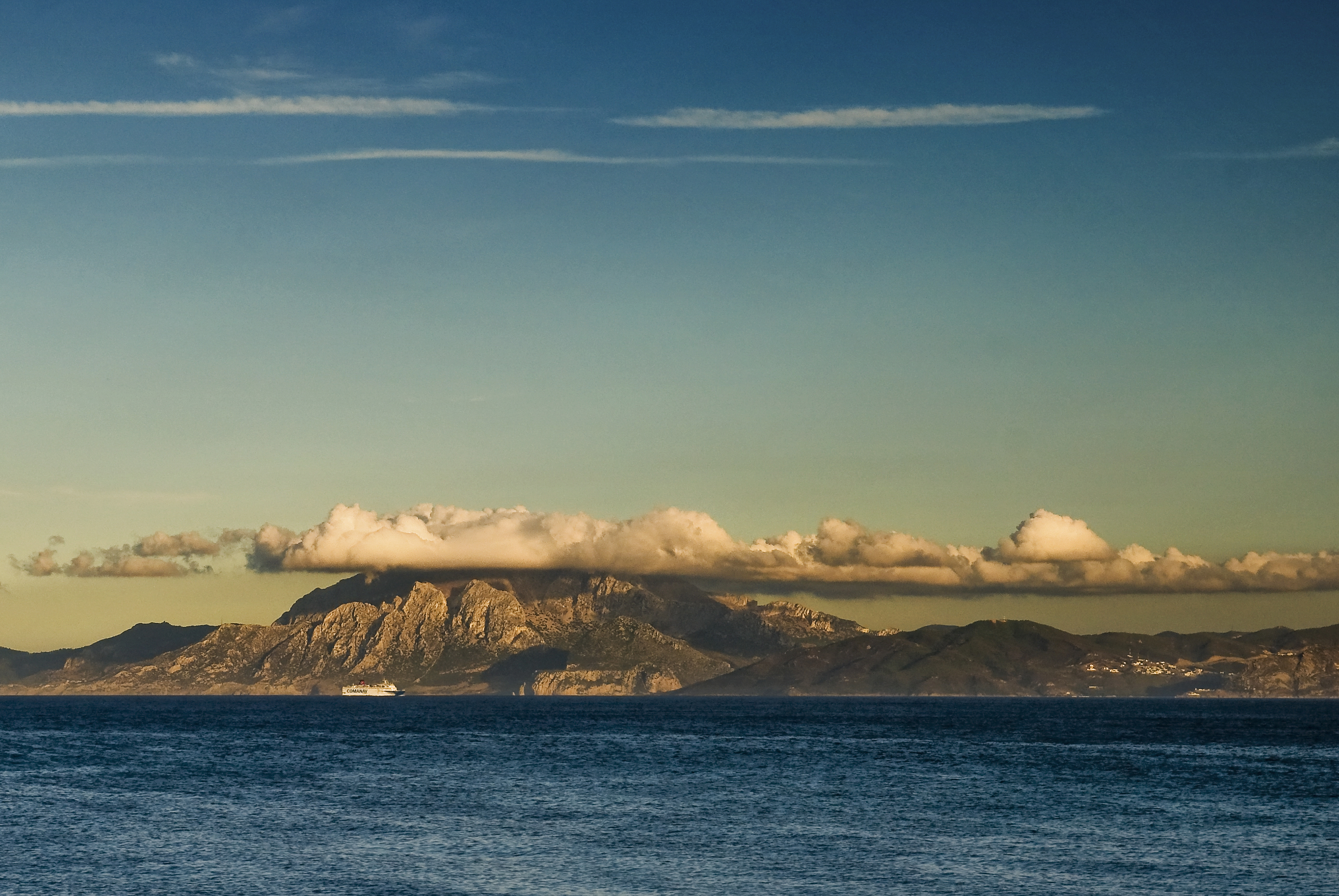 Rif mountains - view from Tarifa (Province Cádiz, Andalucia, Spain): the Strait of Gibraltar and the moroccan coast of Africa which is only 14 km apart. At the horizon, the mountain Jebel Musa (851 m).